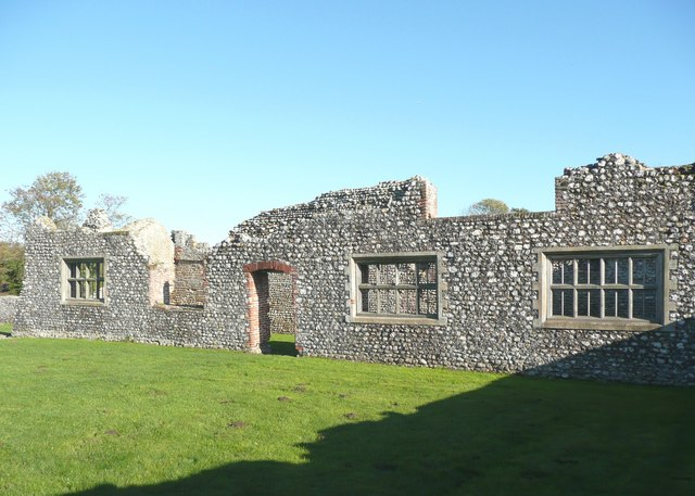 The textile factory, Baconsthorpe Castle, Baconsthorpe This part of the manor house was converted into textile factory by Sir Christopher Heydon.